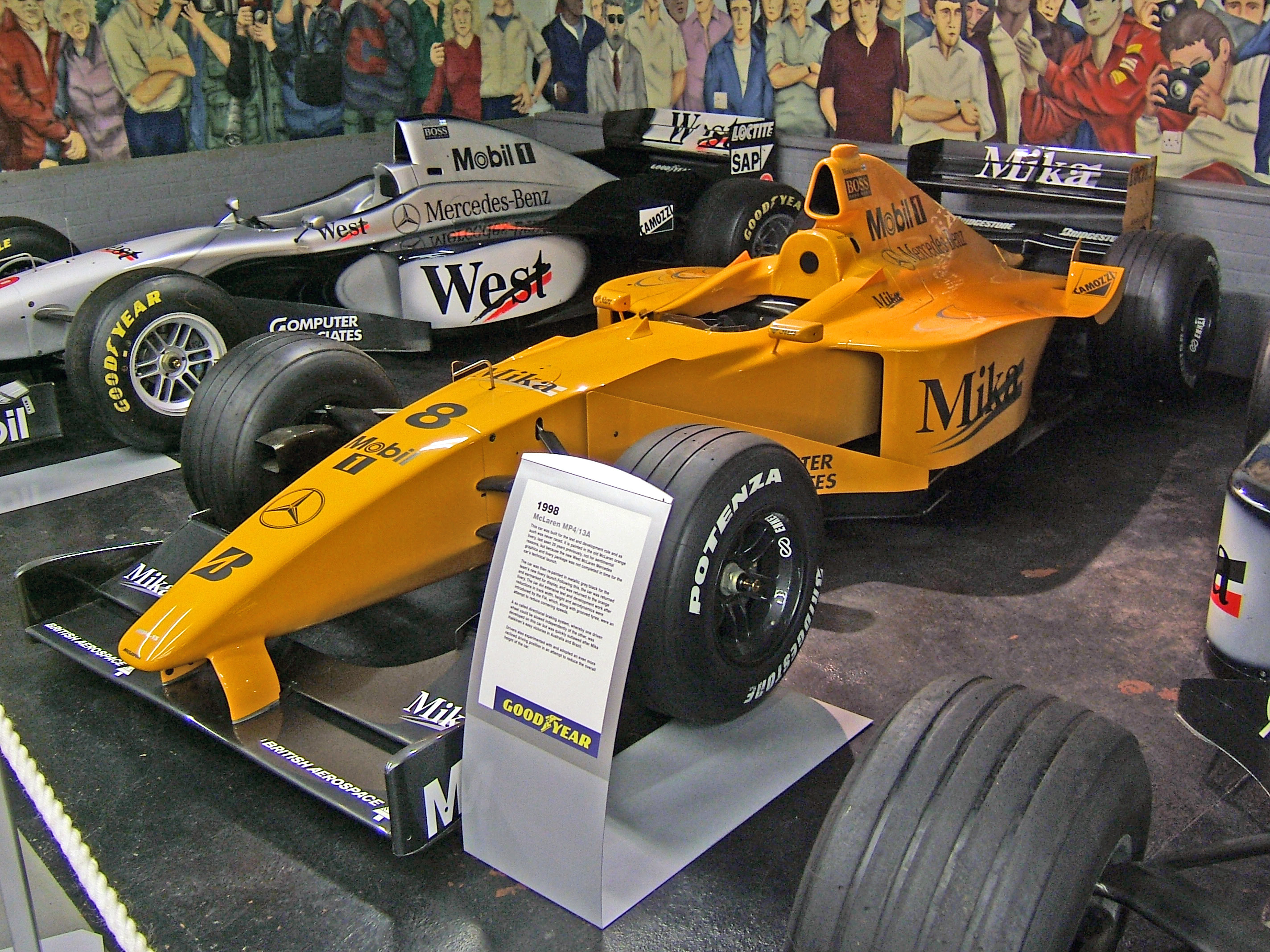 The McLaren MP4-13 Formula One car prototype test mule, painted in traditional McLaren racing orange. In the Donington Grand Prix Collection museum, Leics., UK.